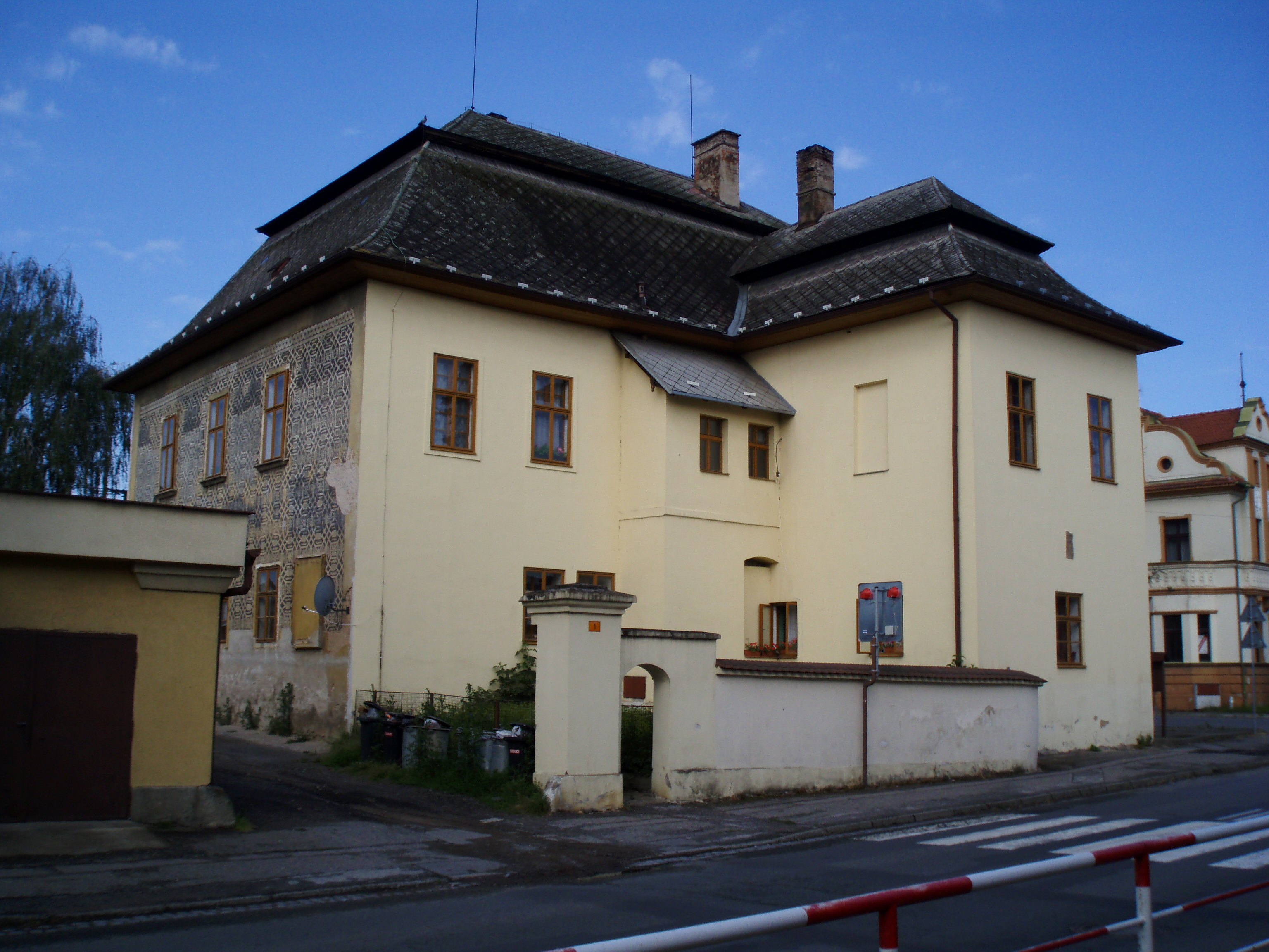 Former castle in Stezery (District of Hradec Kralove, CZ)